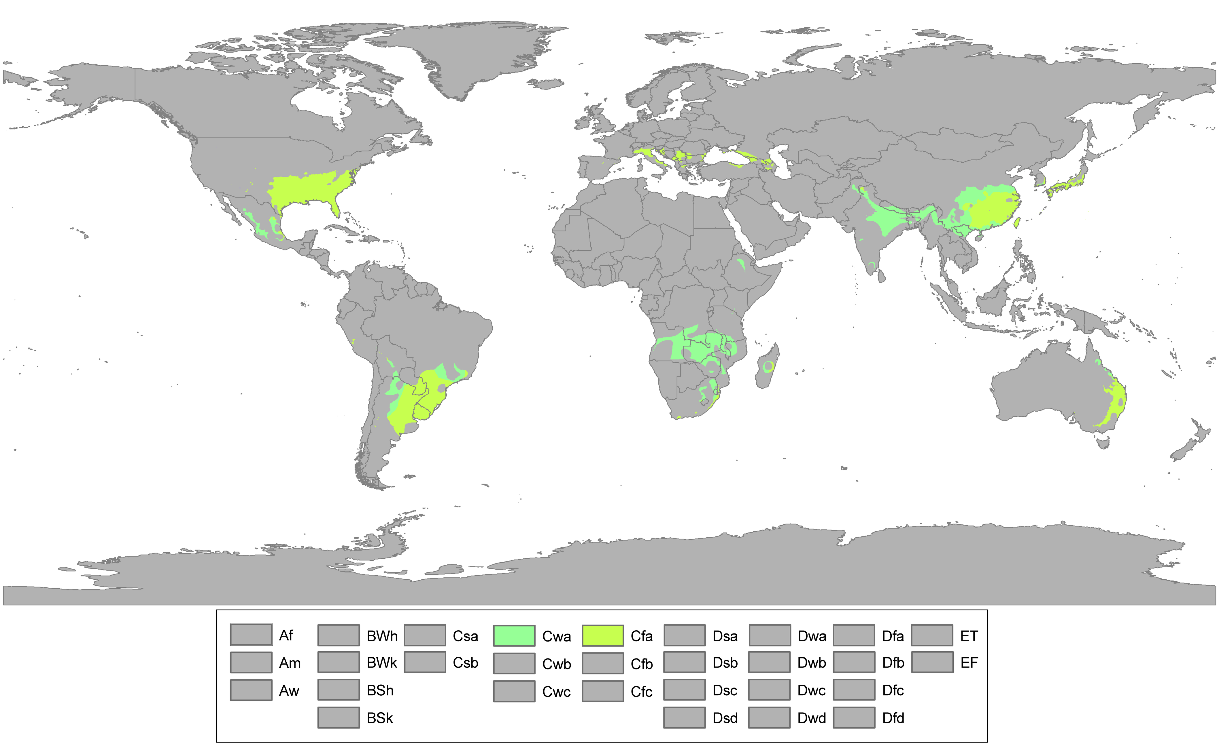 Updated world map of the Köppen-Geiger climate classification. Humid subtropical climates (Cfa, Cwa)